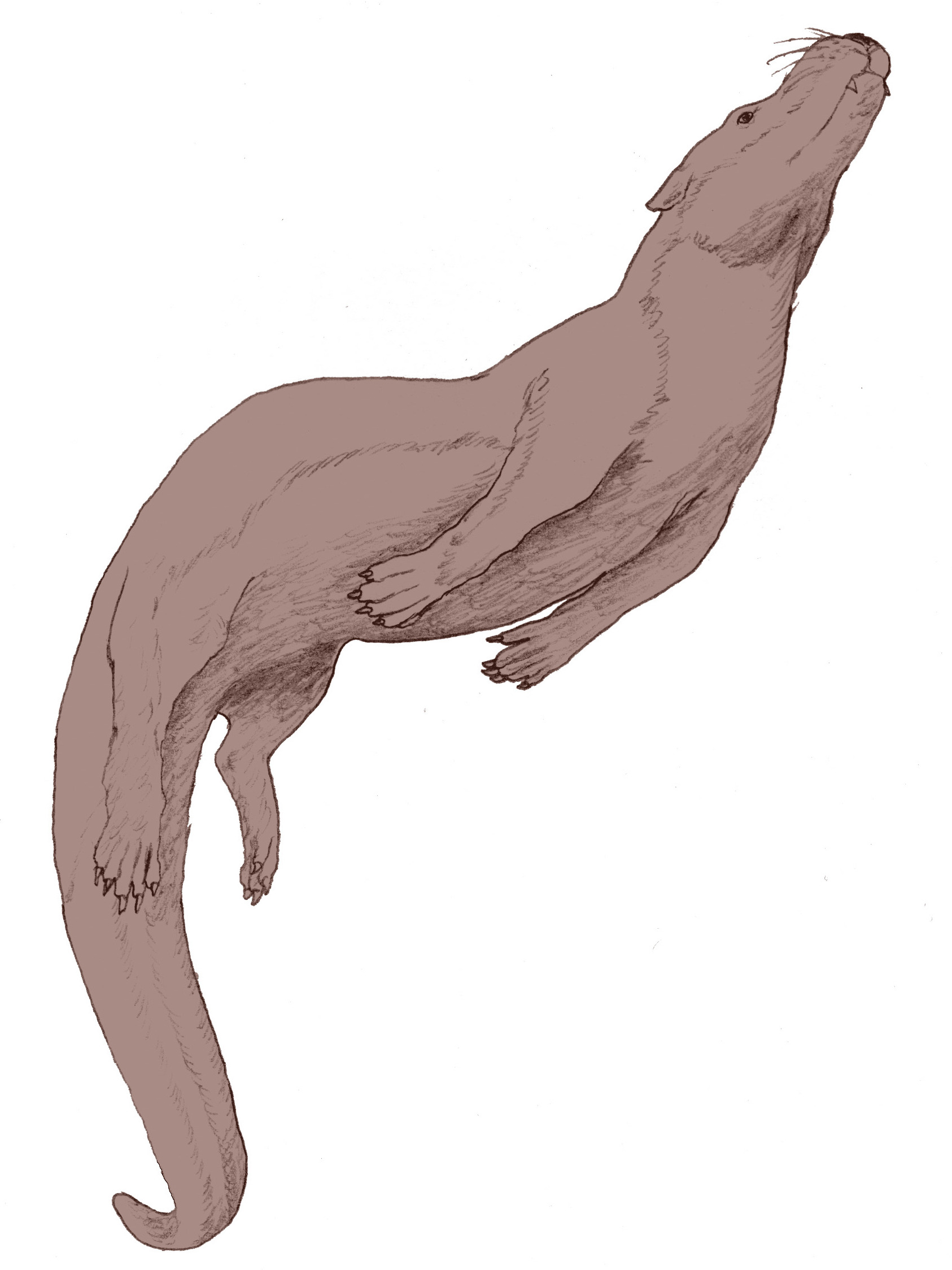 Reconstruction of Buxolestes, an extinct aquatic cimolestid from the Eocene of Messel, Germany